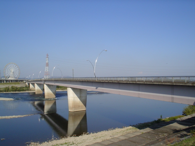 The bridge which is built over Kiso River in Gifu, Japan.